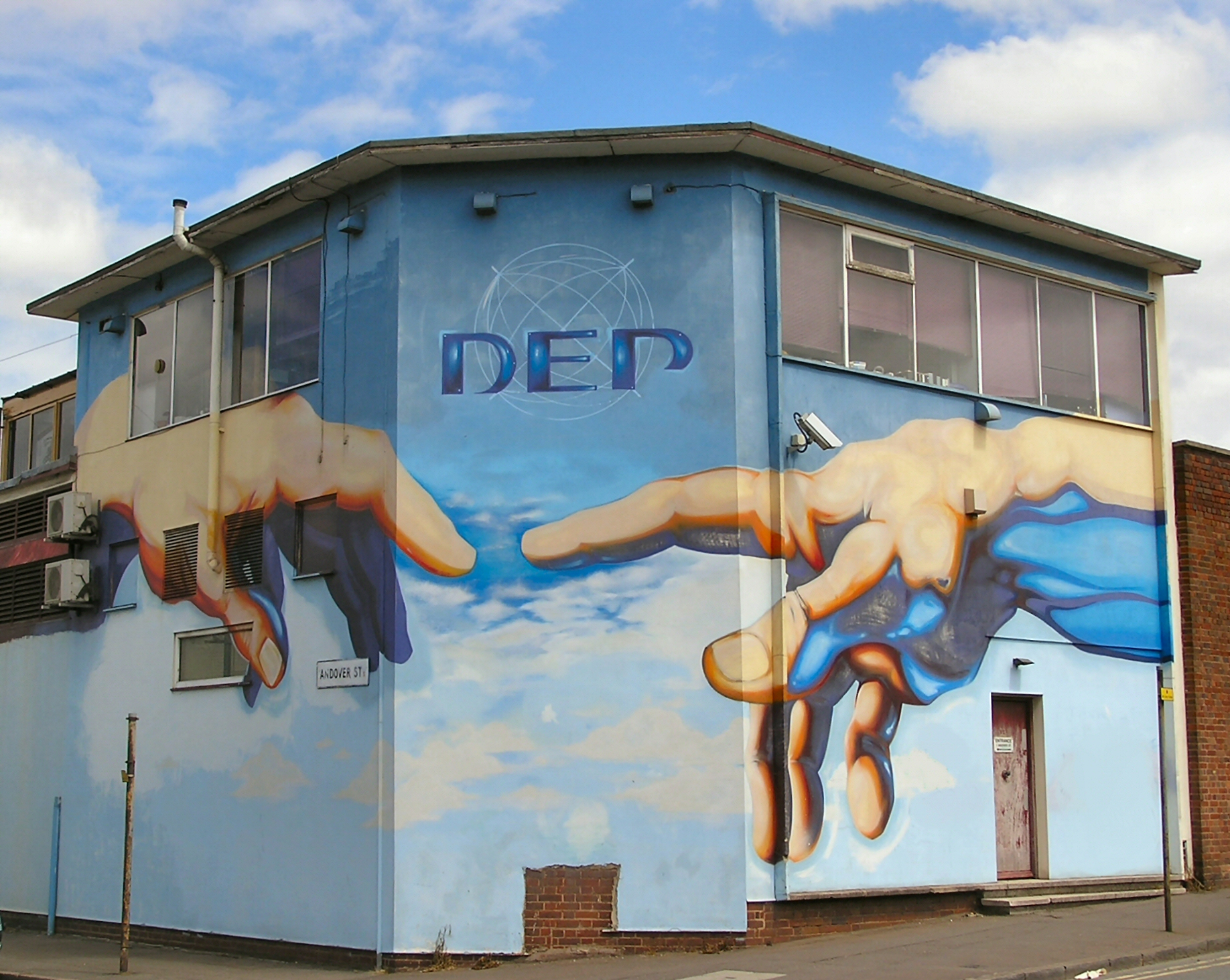 DEP International April 2005 Andover Street Birmingham